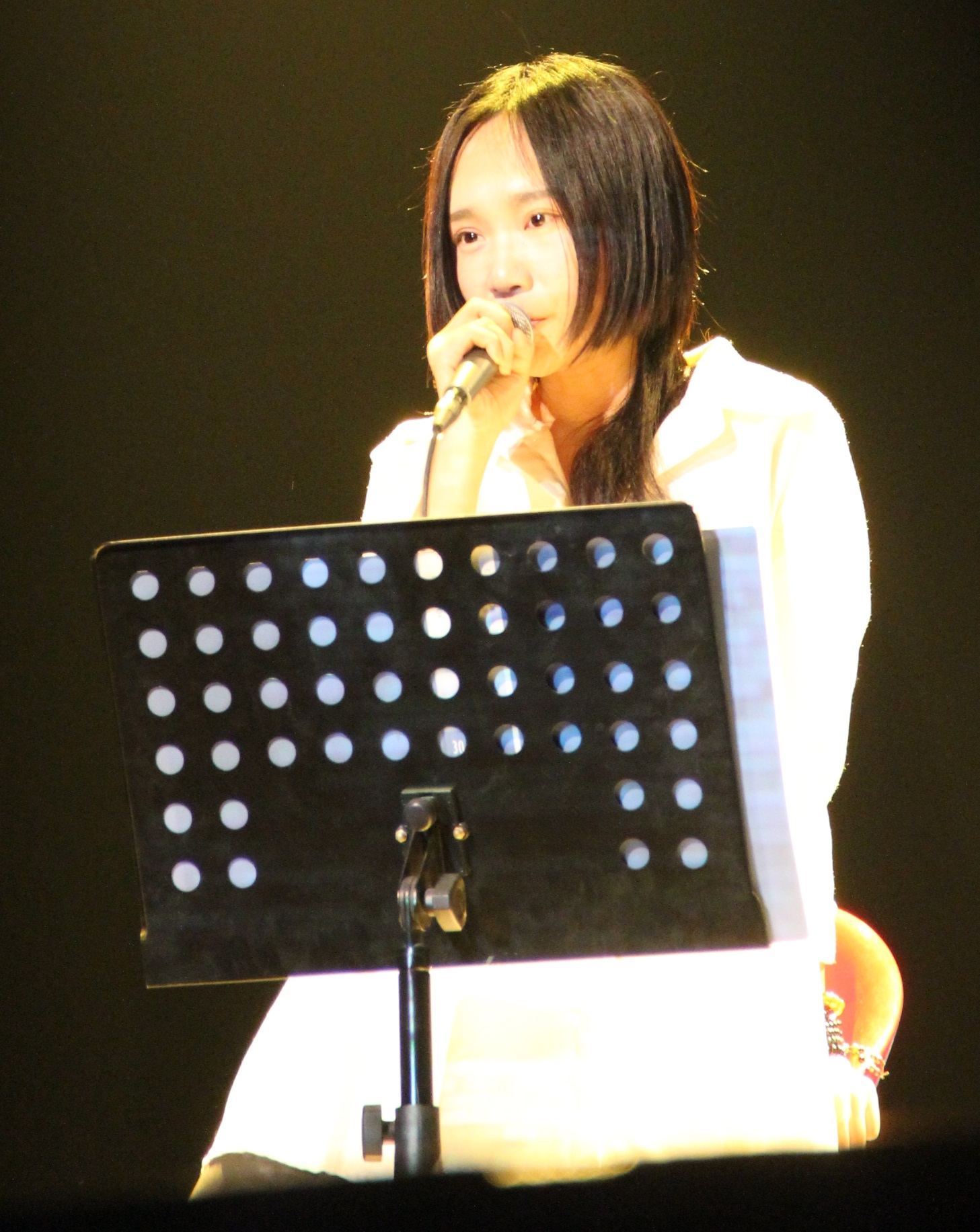 Chinese Singer Shao Yibei